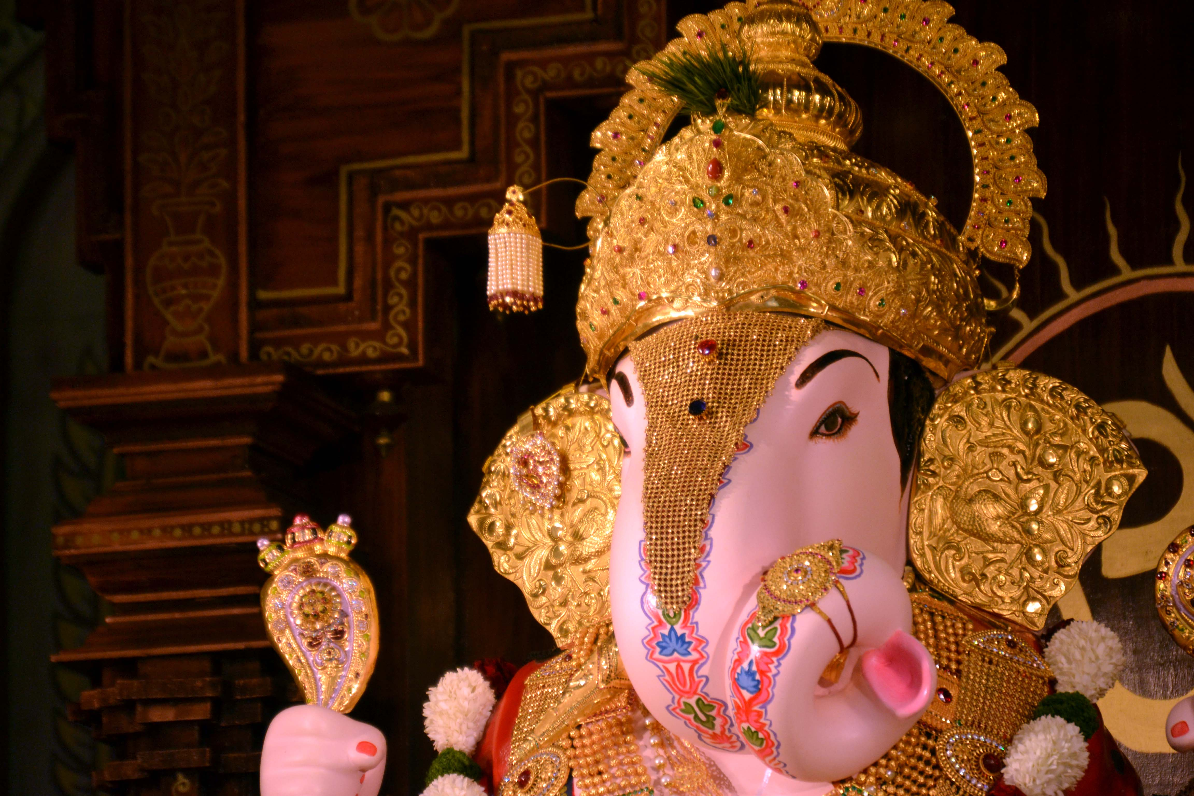 DagduHalwai2013